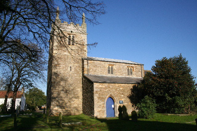 St.Peter's church, Normanby-by-Spital, Lincs. An ancient though unremarkable exterior holds a wonderful interior, Norman and Early English arcades with bold capitals. In the care of the Redundant Churches Fund but open during daylight hours.